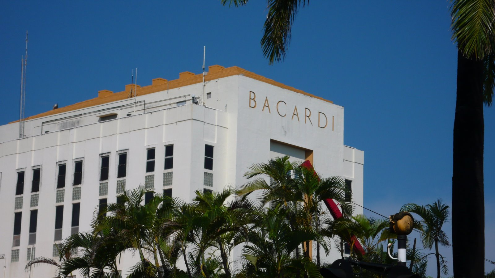 Casa Bacardi in Cataño, Puerto Rico